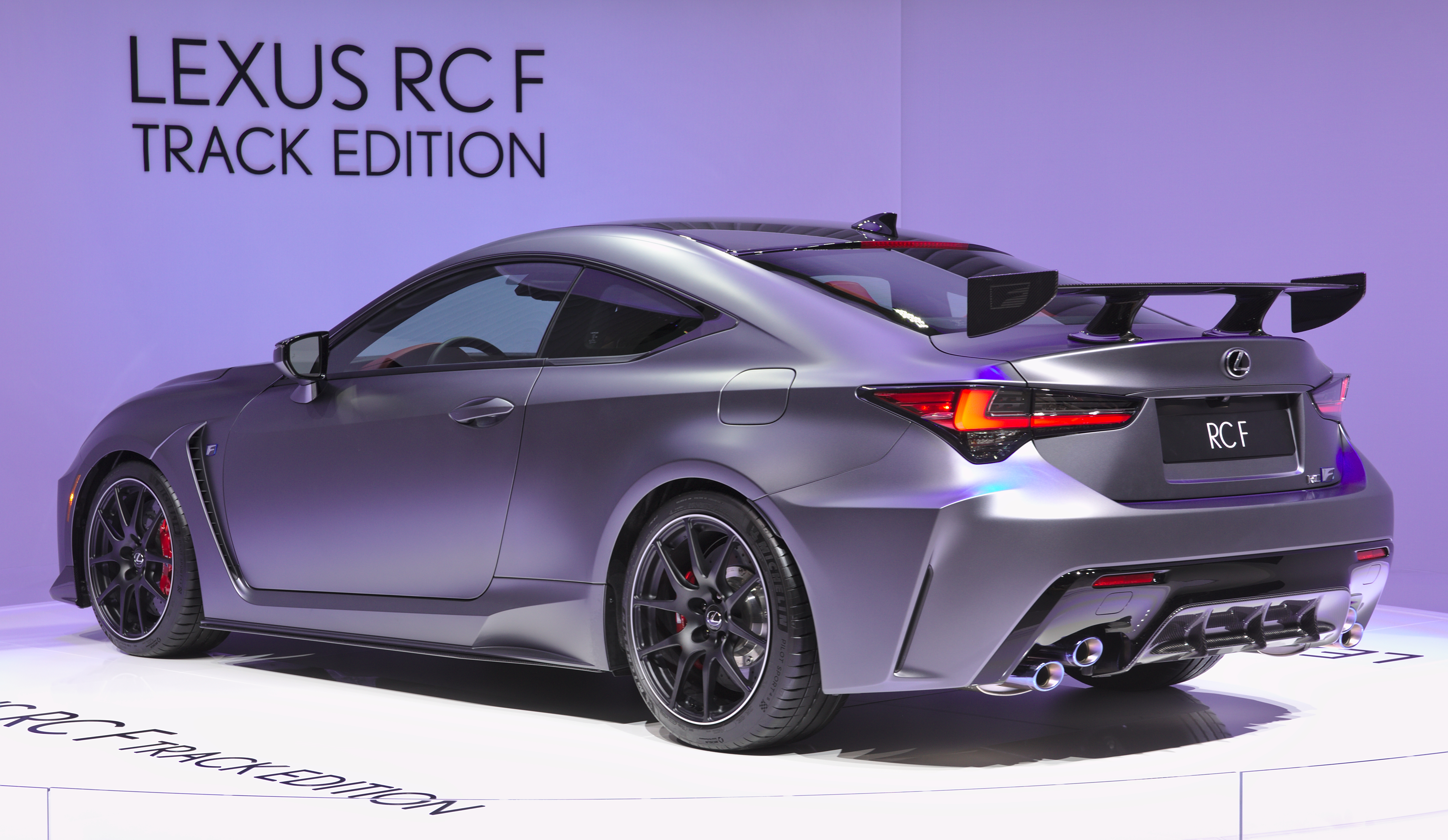 Lexus RC-F Track Edition at Geneva Motor Show 2019